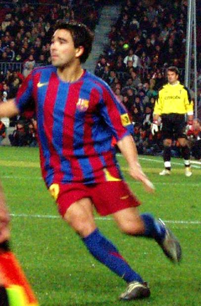 Brazilian football player Deco. Camp Nou, F.C Barcelona vs Celta de Vigo. Final score: 2 - 0